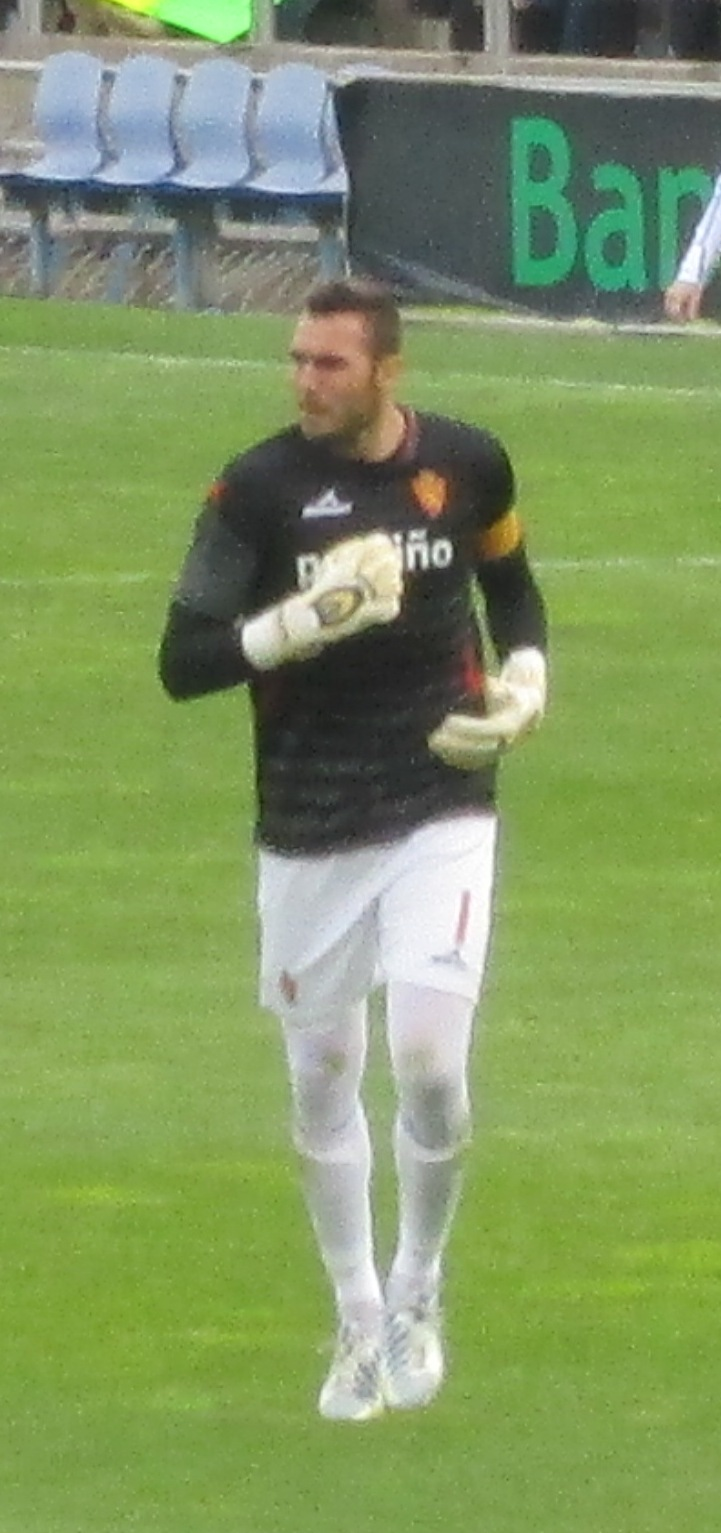 roberto portero real zaragoza